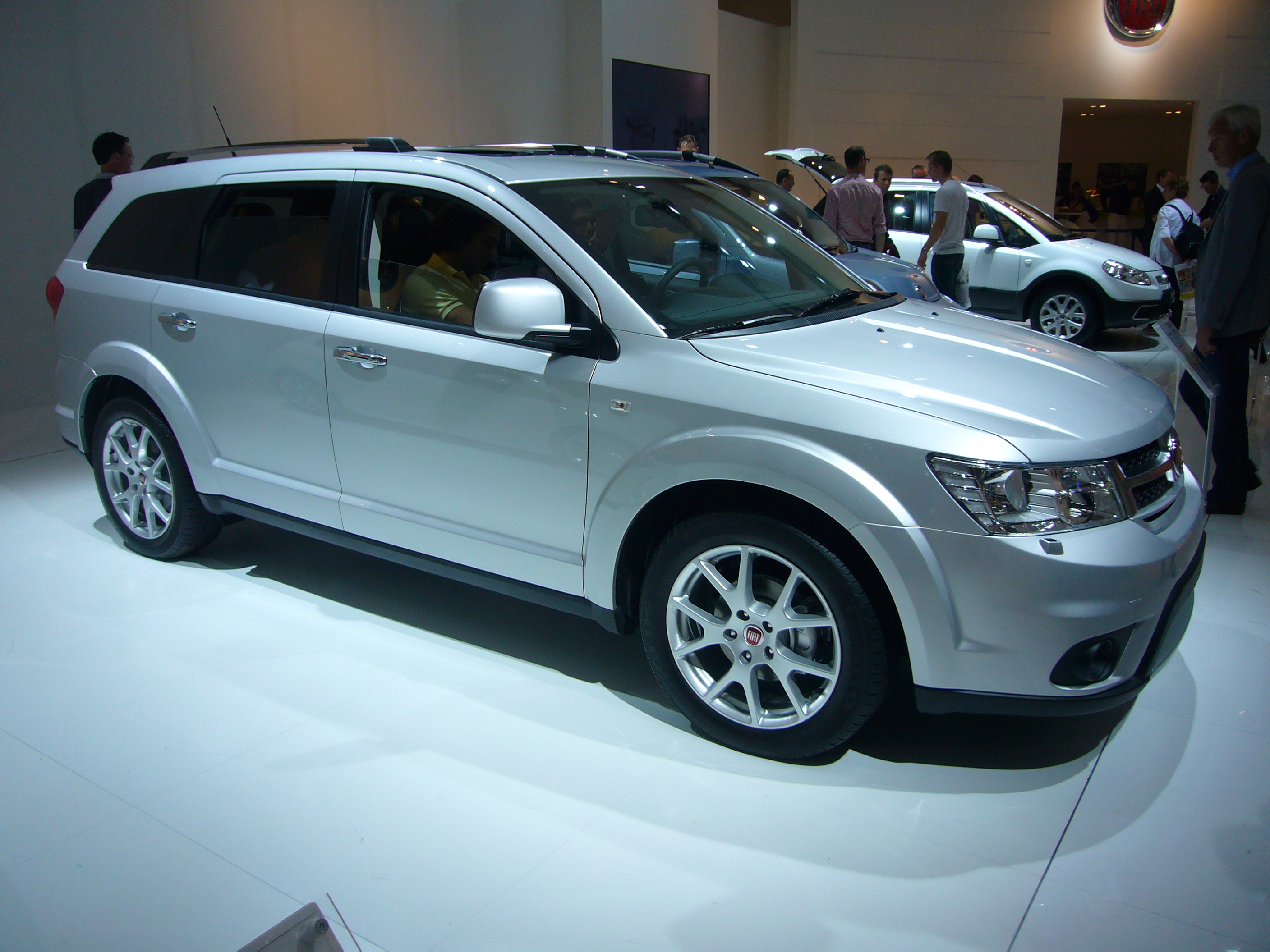 Fiat Freemont at AutoRAI Amsterdam 2011